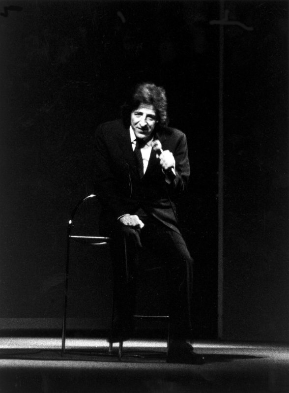 Giorgio Gaber in concert